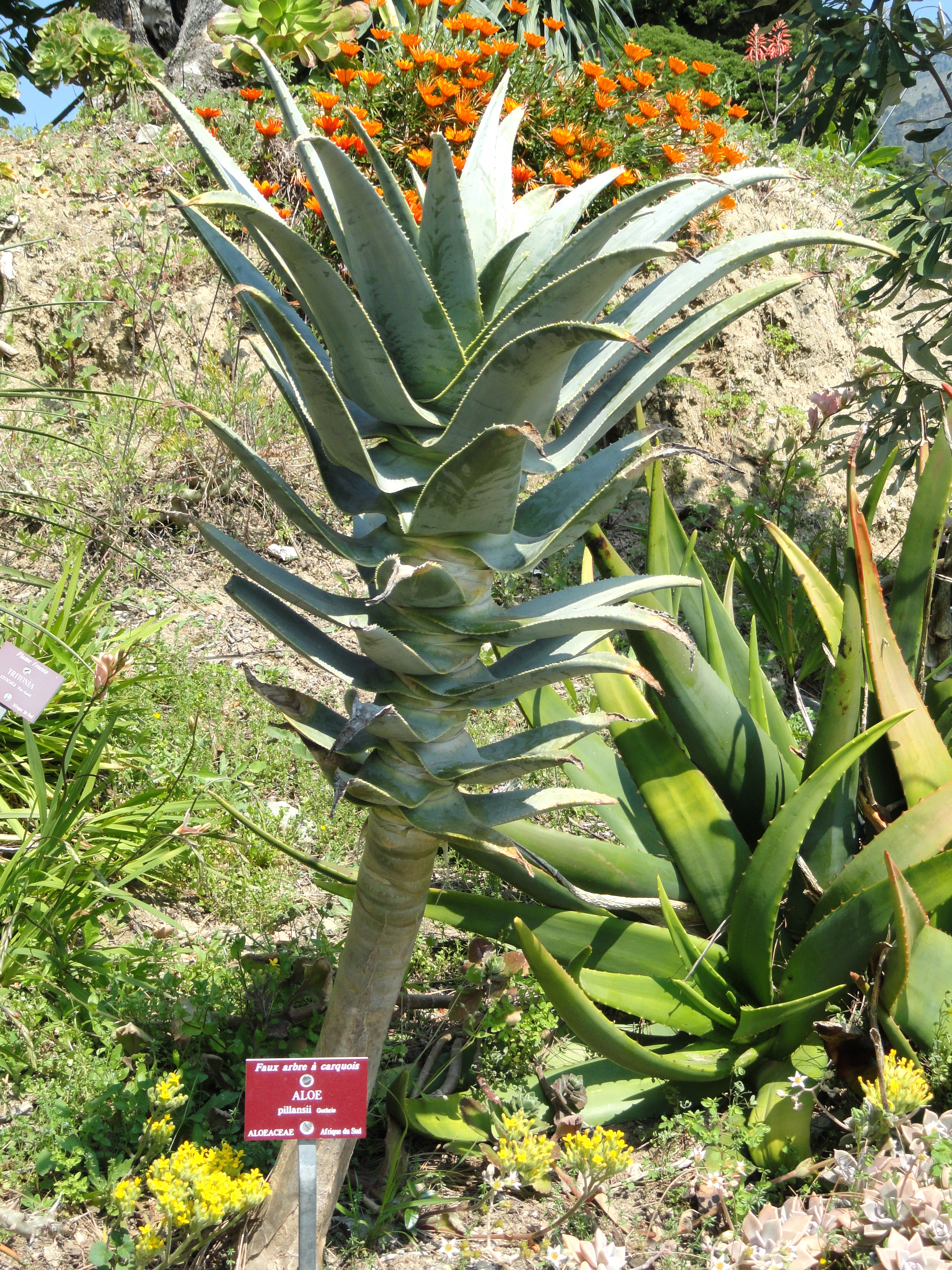 Aloe pillansii specimen in the Jardin botanique du Val Rahmeh, Menton, Alpes-Maritimes, France.